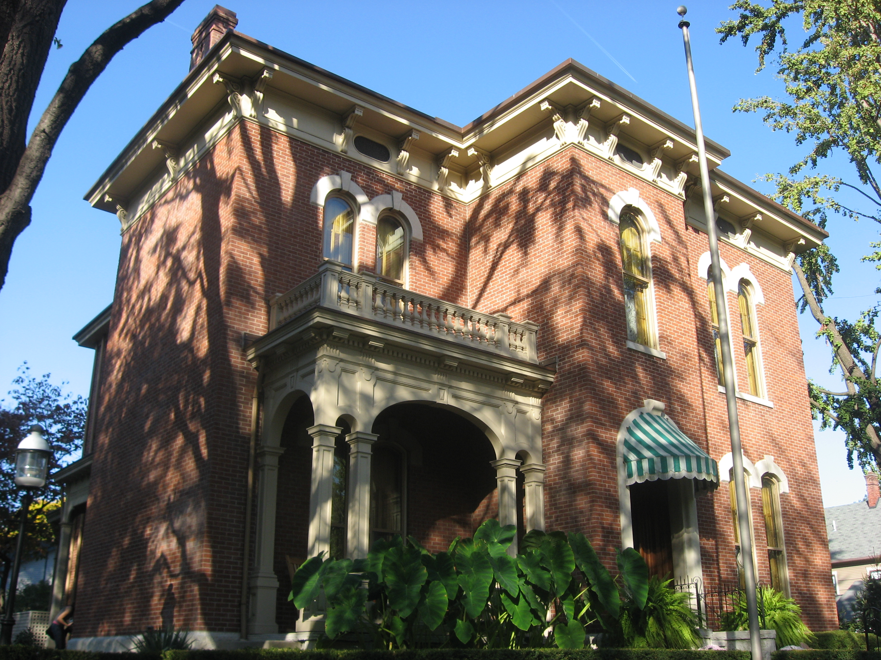 Front and western side of the James Whitcomb Riley House, located at 528 Lockerbie Street in Indianapolis, Indiana, United States. Built in 1872 and since converted into a museum, it was named a National Historic Landmark in 1962.